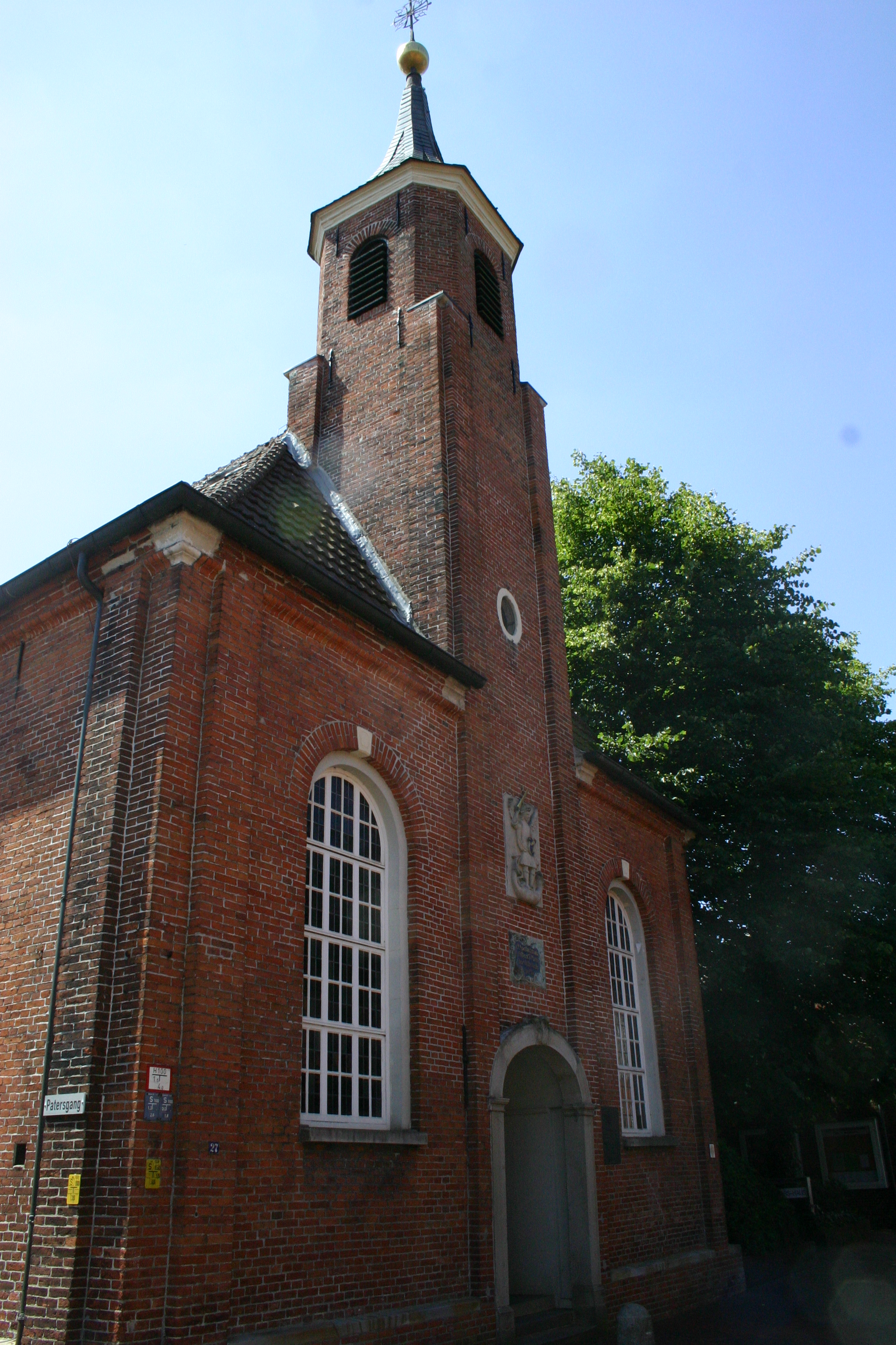 Historic Church (catholic) in Leer, East Frisia, Germany